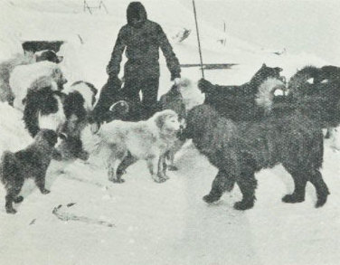 Dogs of the Southern Cross Expedition photograph by Carsten Borchgrevink